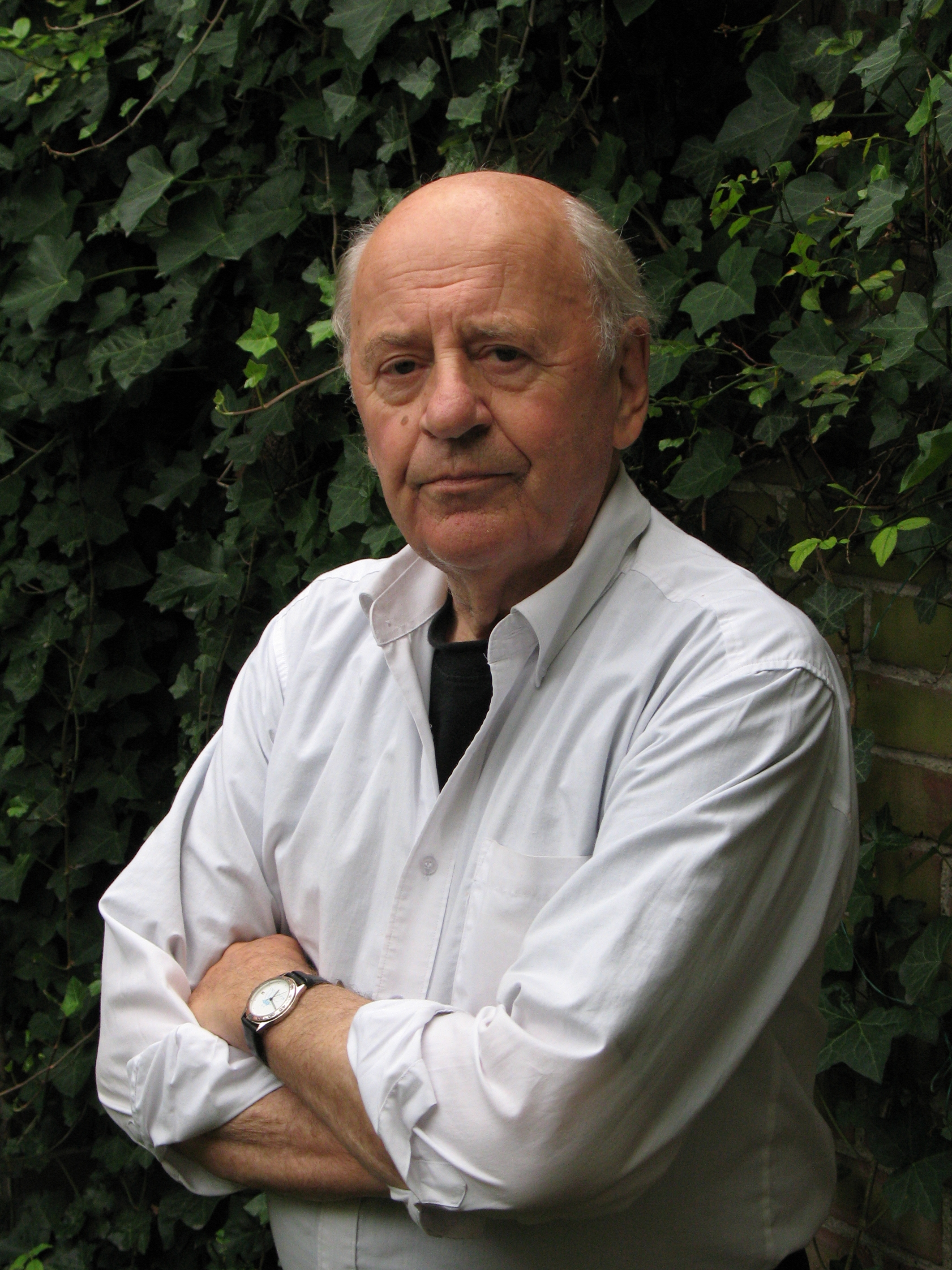 Photo of Sietz Leeflang, provided by himself.